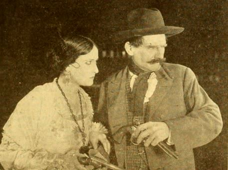 Still from the American western film When a Woman Strikes (1919) with Rosemary Theby and Ben F. Wilson, on page 117 of the April 5, 1919 Moving Picture World.